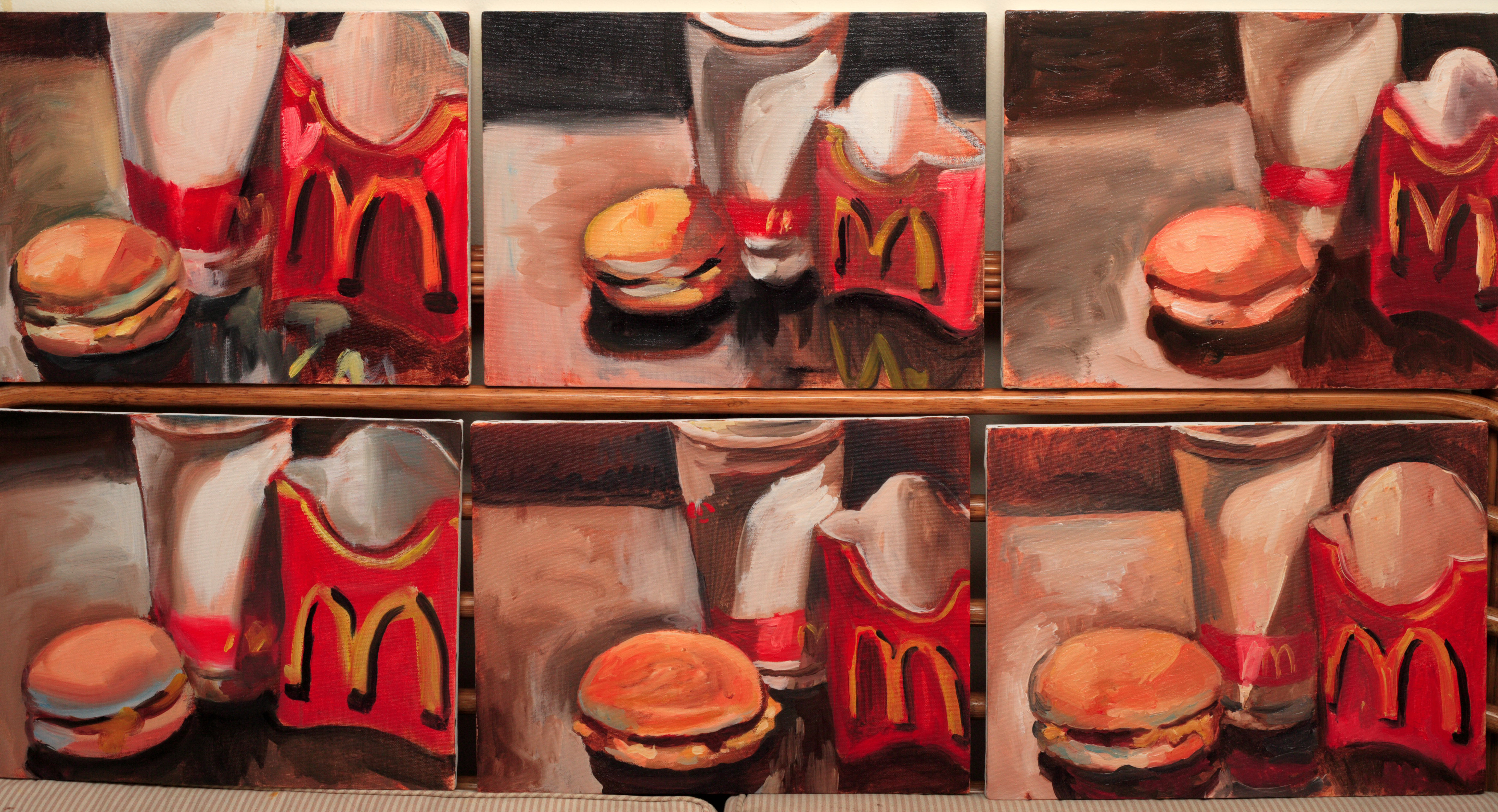 Painting of McDonald's meals. Work by Dutch artist Peter Klashorst.